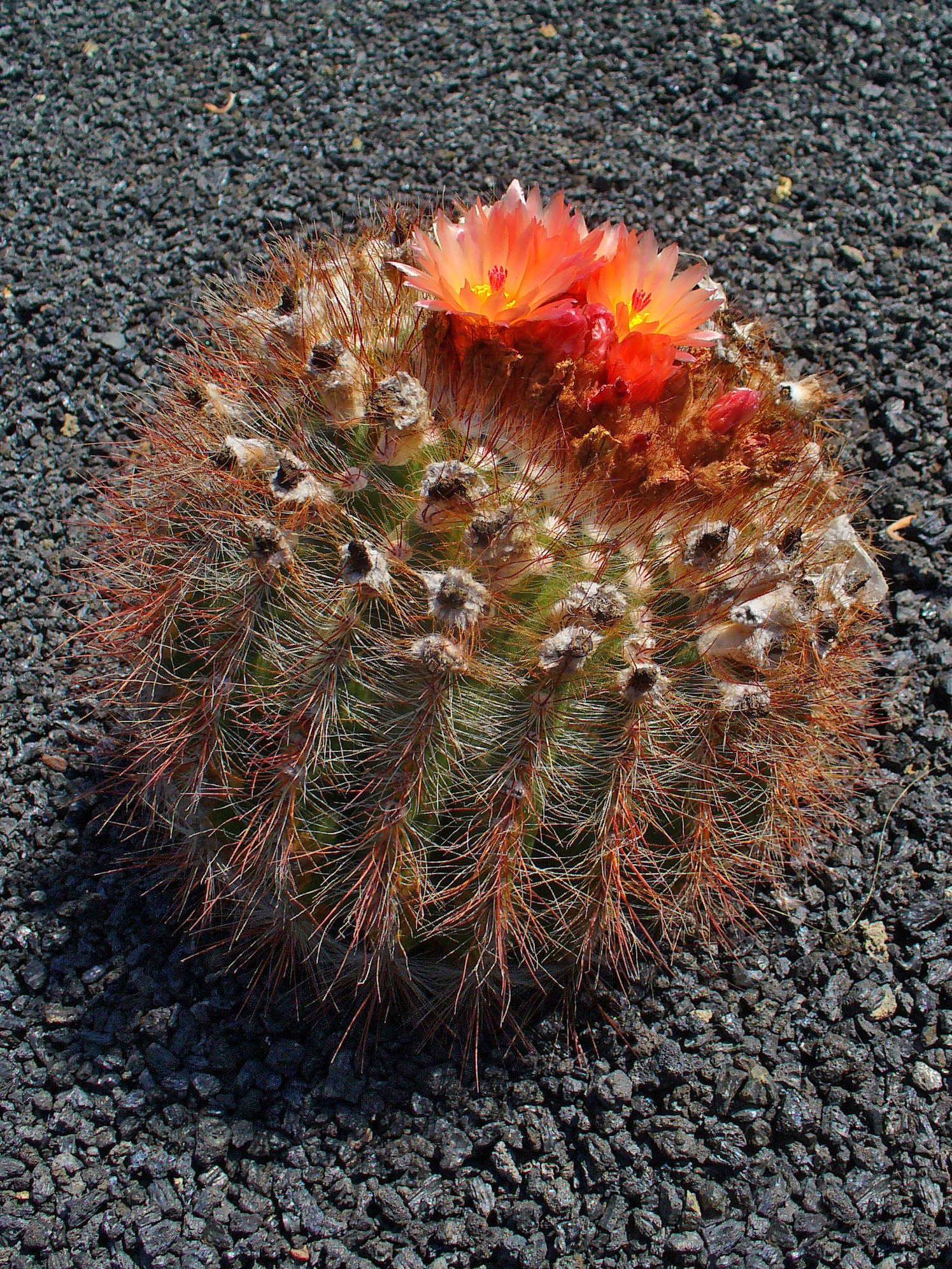 Habitus; Jardin de Cactus, Guatiza, Lanzarote, Canary Islands, Spain.